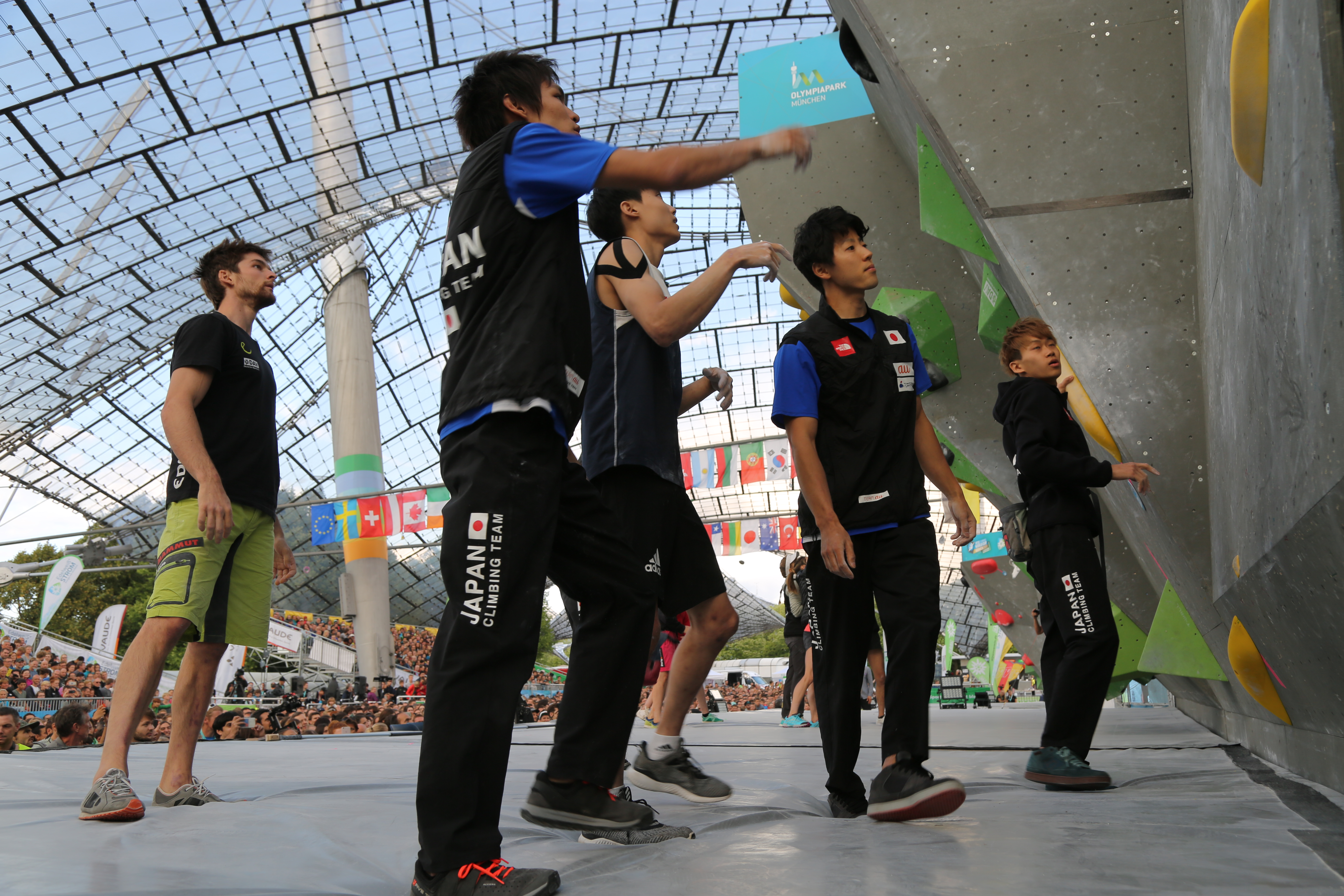 Boulder Worldcup 2017 in Munich, Germany. The finalists inspecting the routes.